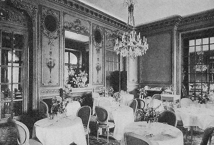 Photo of the Marie Antoinette Room from an article about the Ritz Hotel, London from the November 1914 issue of Architectural Record.